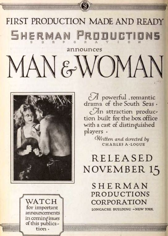 Advertisement for the American drama film Man and Woman (1920) with Diana Allen and Joe King, on page 44 of the October 9, 1920 Exhibitors Herald.